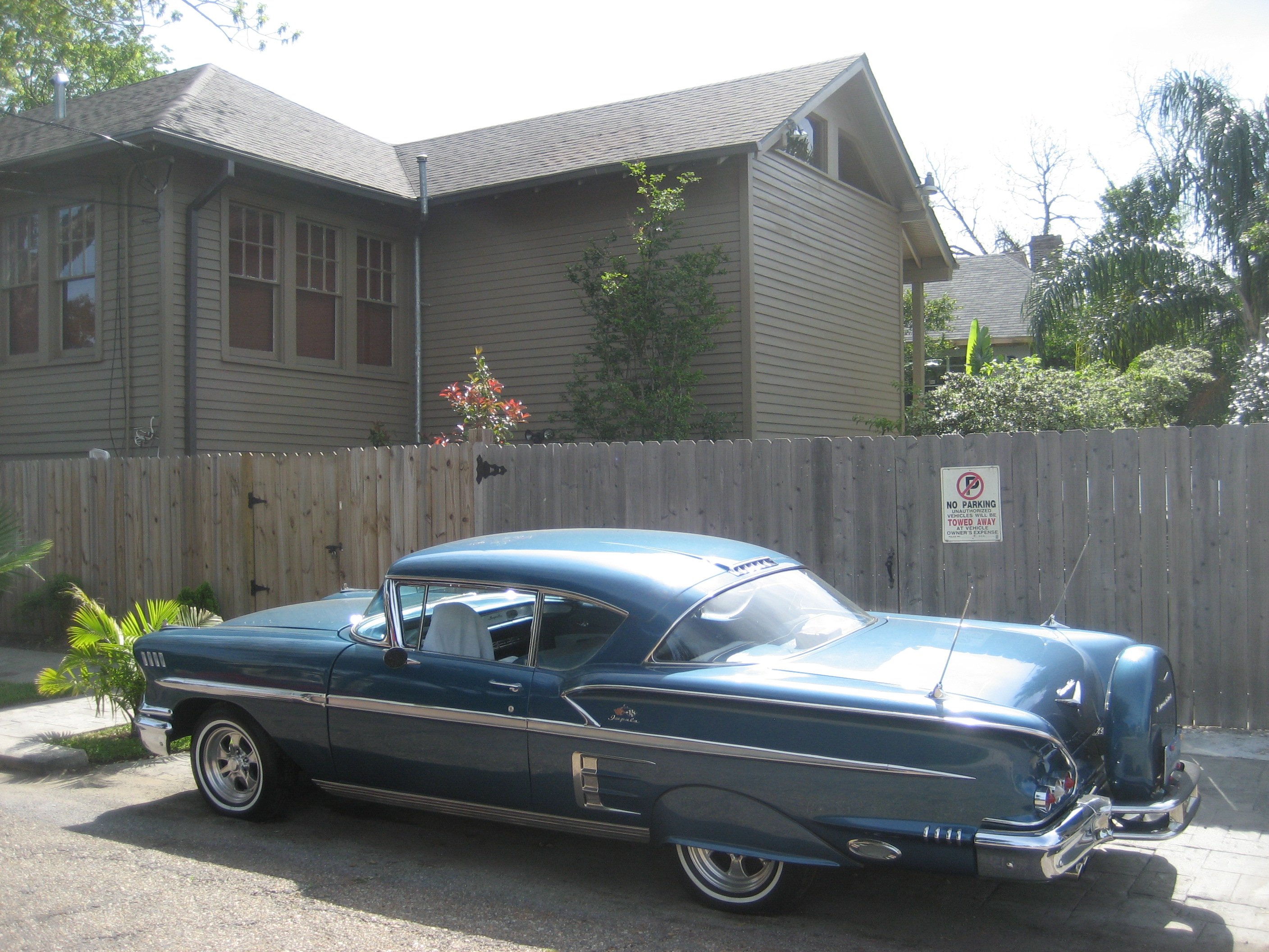 1958 first generation Chevrolet Impala two door hardtop in good condition, seen on street in Carrolton section of New Orleans